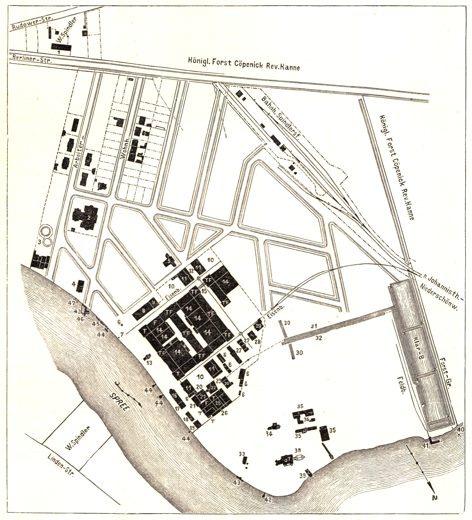 Berlin - Spindlers Fabrik, situation plan